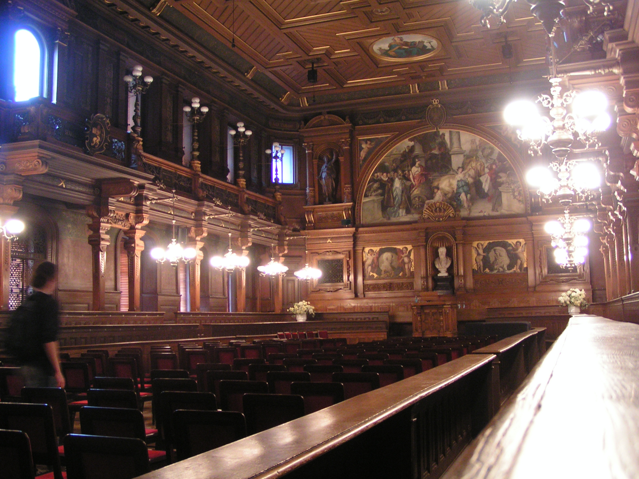 The University of Heidelberg, the aula